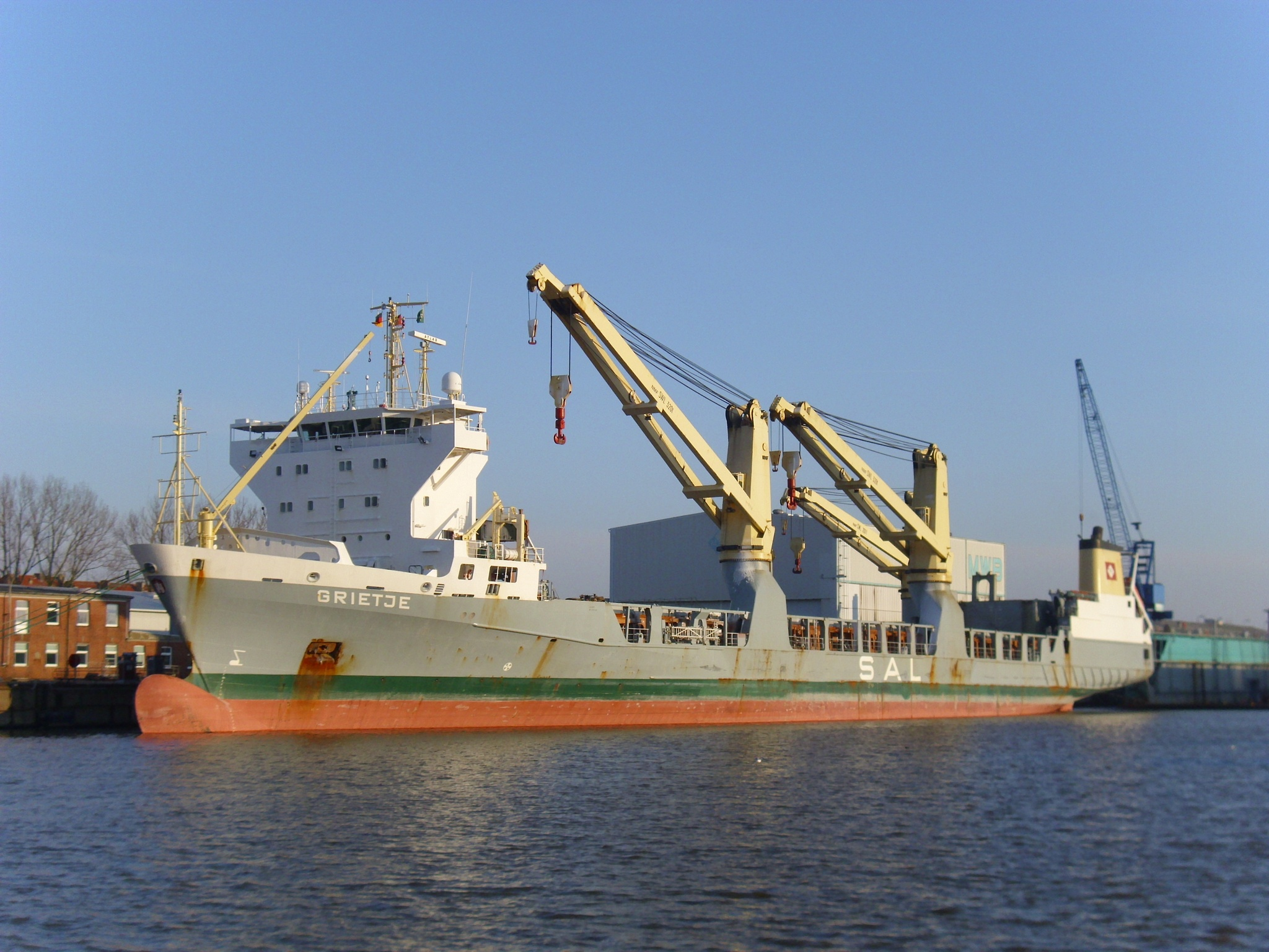 The heavy lift ship Grietje in Bremerhaven, Germany. Details of the ship: external website.